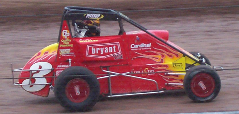 This image was taken at the 2006 season finale Badger Midget (BMARA) race at Charter Raceway Park near Beaver Dam, Wisconsin, USA. #3 is Brandon Waelti. I took this image myself, and cropped it.